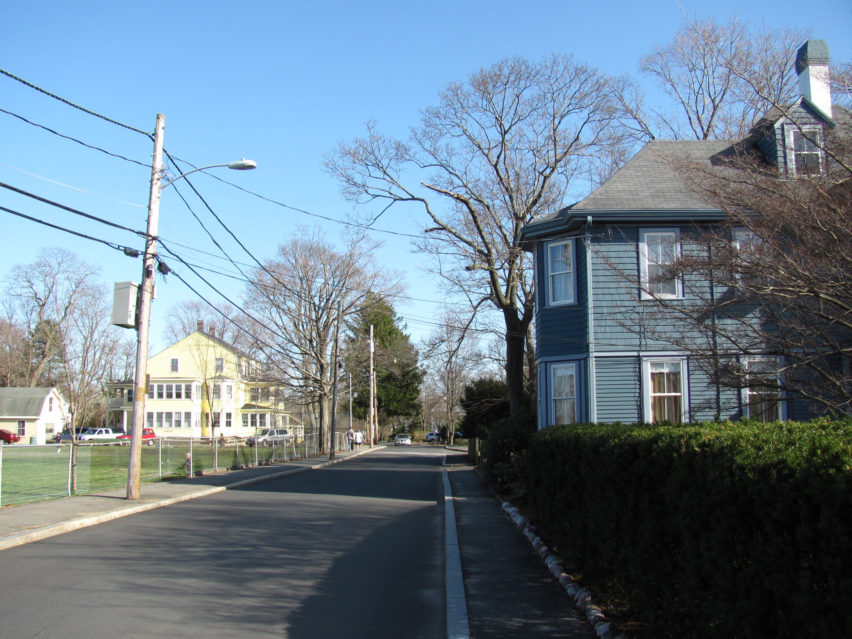 Looking southeast on Clifton Avenue, Marblehead Massachusetts